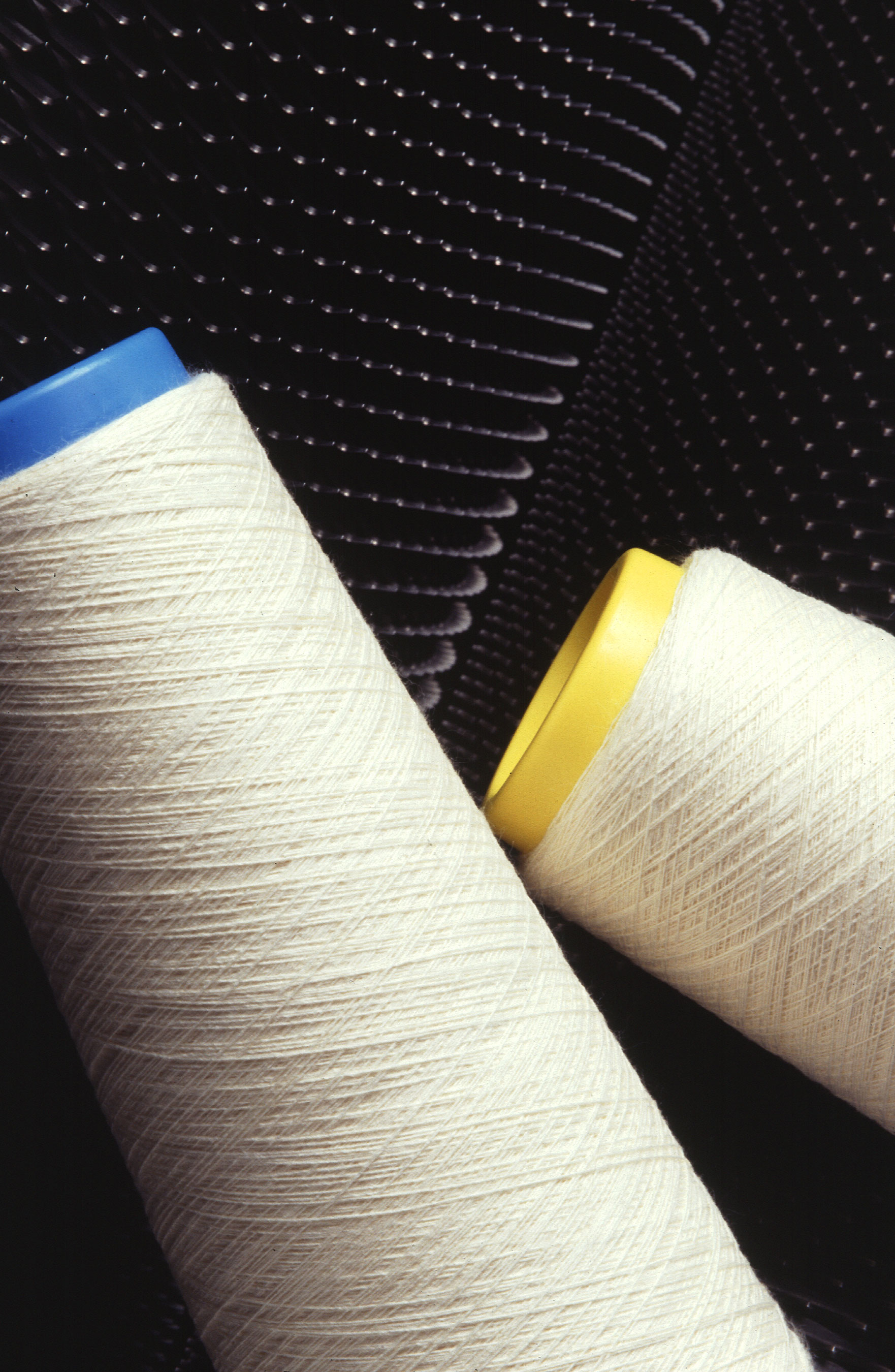 Conical cotton yarn coils made by spinning and winding. Conical coils are often used for knitting.